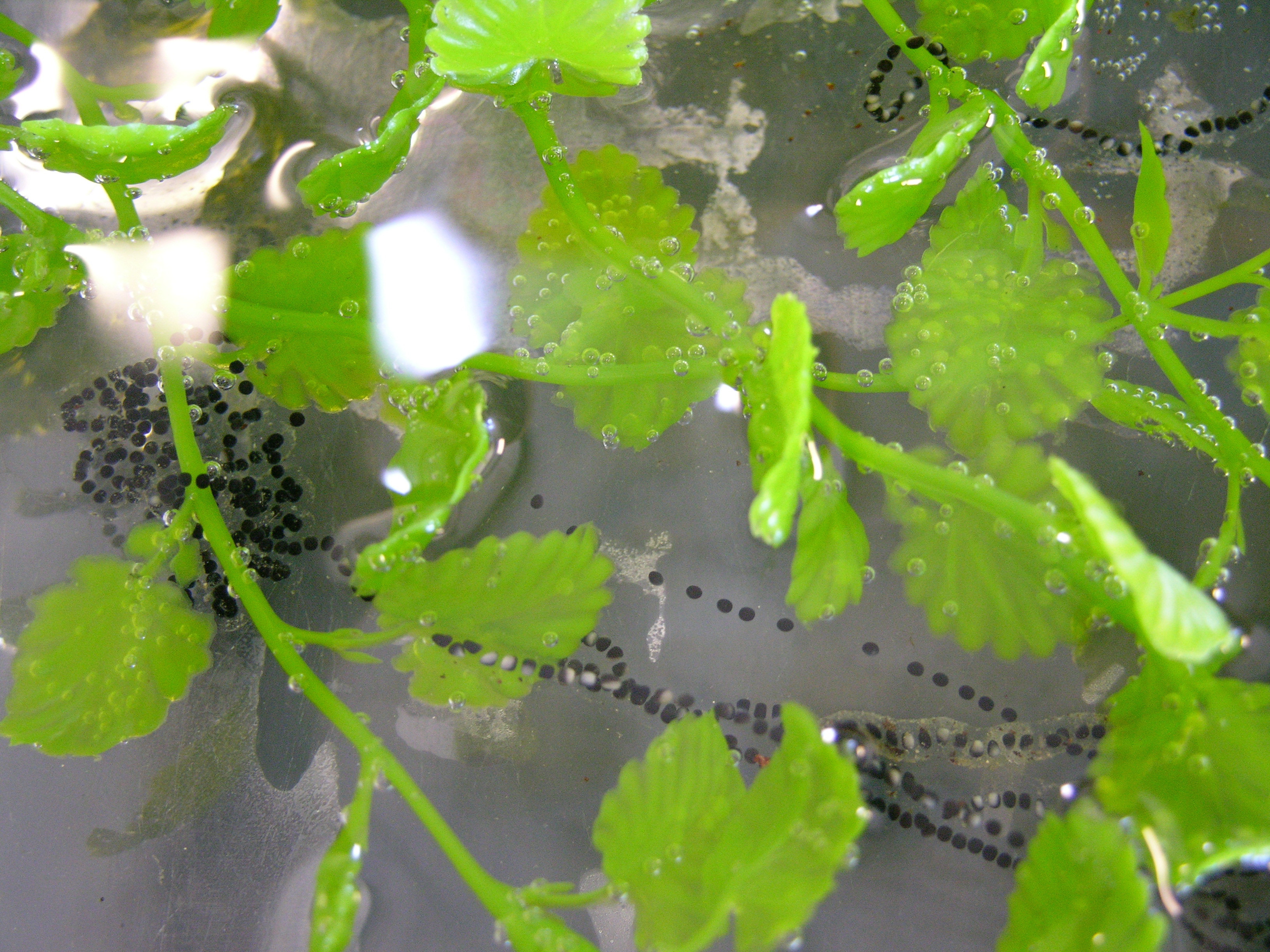 Wyoming toad (Anaxyrus baxteri) eggs, Wyoming, USA